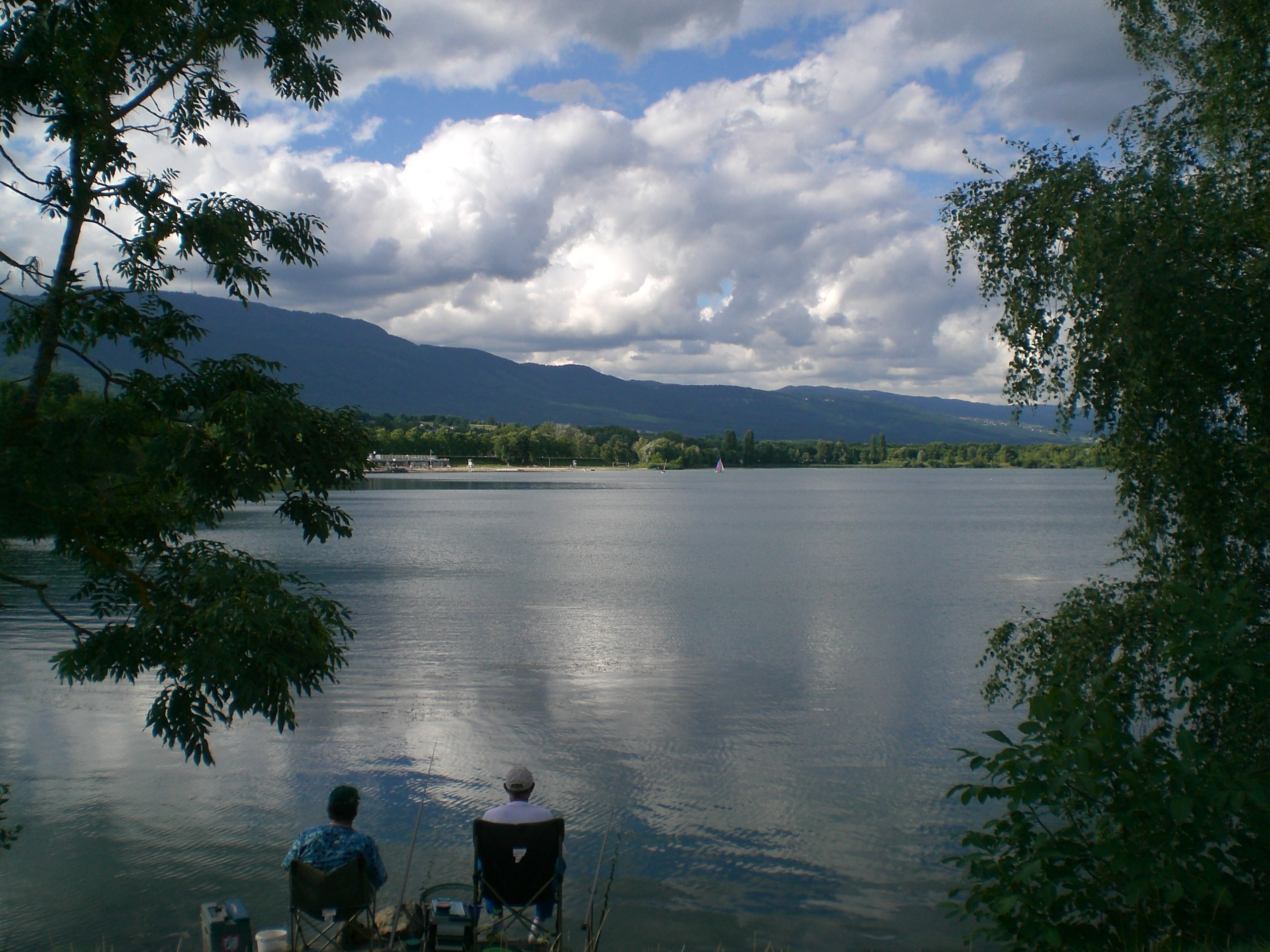 lac de divonne